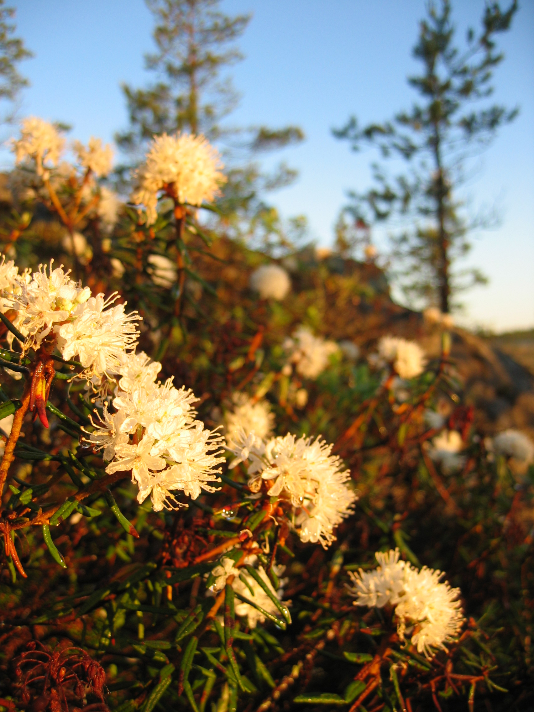 Flowers of Rhododendron tomentosum glows in the light of the rising sun in Lakjärvenrahka, Kurjenrahka National Park, Finland